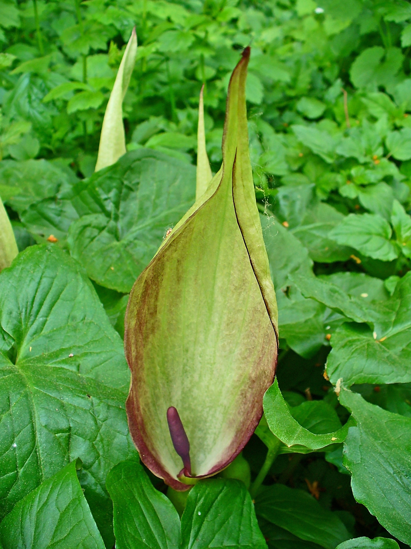 Arum maculatum, Araceae, Wild Arum, Lords and Ladies, Jack in the Pulpit, Devils and Angels, Cows and Bulls, Cuckoo-Pint, Adam and Eve, Bobbins, Naked Boys, Starch-Root, Wake Robin, inflorecence; Karlsruhe, Germany. The fresh subterranean parts are used in homeopathy as remedy: Arum maculatum (Arum-m.)